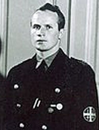 Thorvald Thronsen, hirdleder